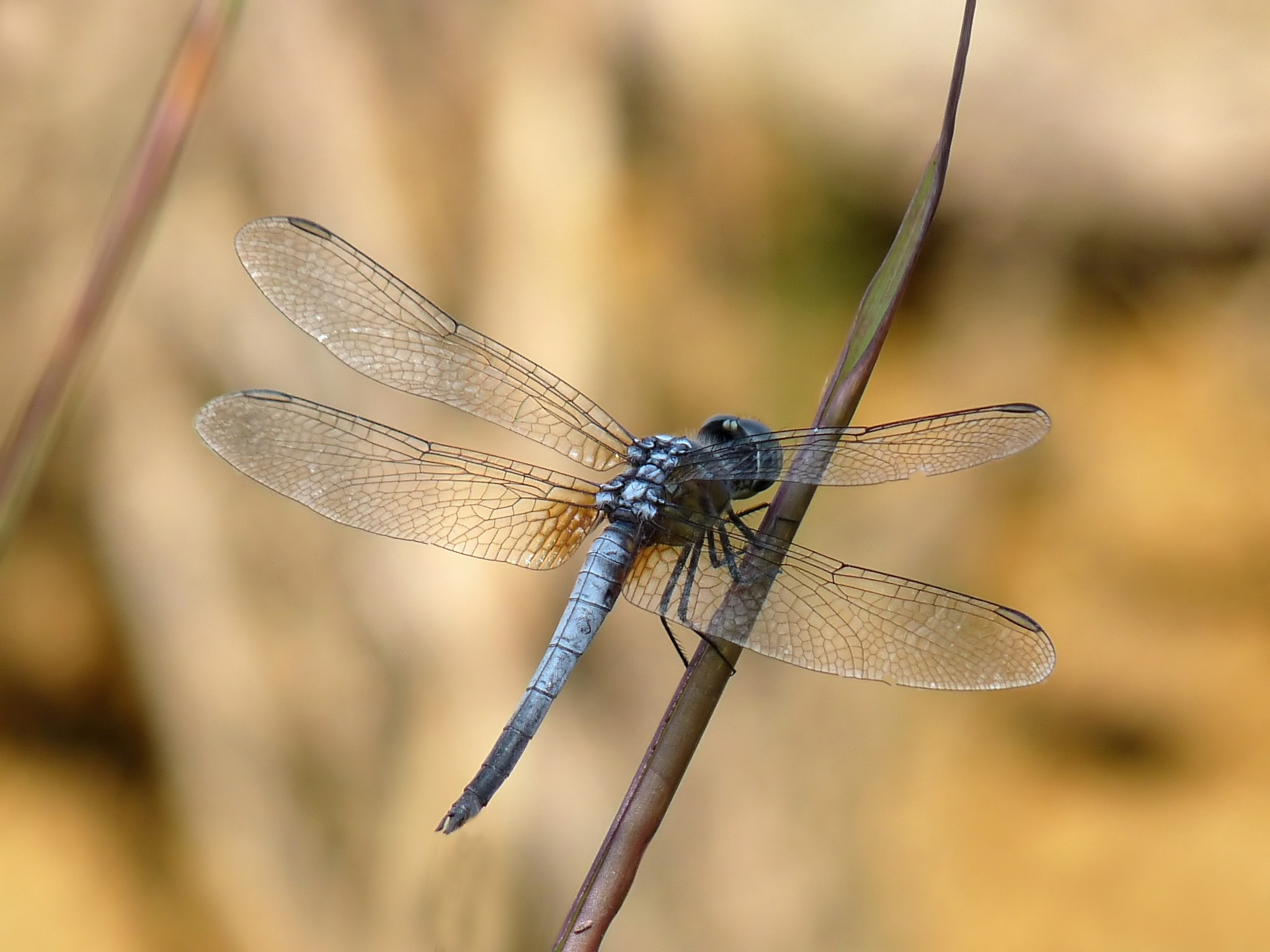 Brachydiplax chalybea, Rufous-backed Marsh Hawk, is a small black and ochre coloured dragonfly with dense bluish white pruinescence on thorax and abdomen. The ochre metallic blue on the face of these dragonflies helps to easily distinguish them. Another distinguishing feature is the yellow wing-spots with a black border. The thorax is rusty brown in colour. Commonly found in marshes, ponds and rivers. They are often seen perched by the water every now and then and flying out to challenge any intruder that wanders into their small territory. While males have a bluish abdomen, the females have a more ochreous colour. They are less often seen and only appear at the water for oviposition. Taken at Kadavoor, Kerala, India